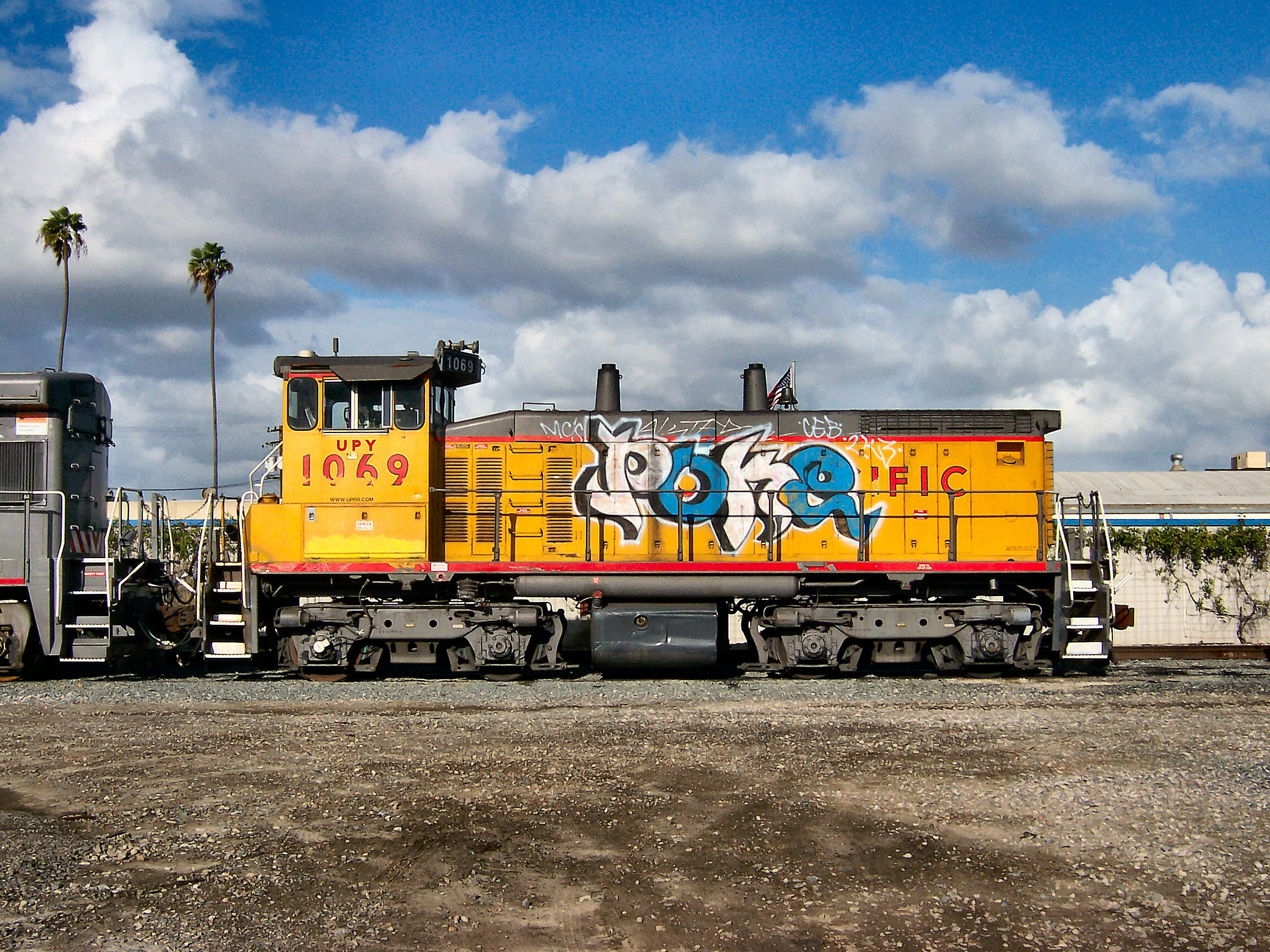 Union Pacific Railroad Yard locomotive UPY 1069, an EMD SW1500, photographed at Anaheim, California, USA